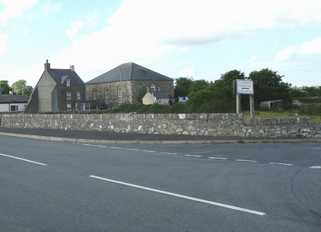 Capel Sardis from Pont Malltraeth